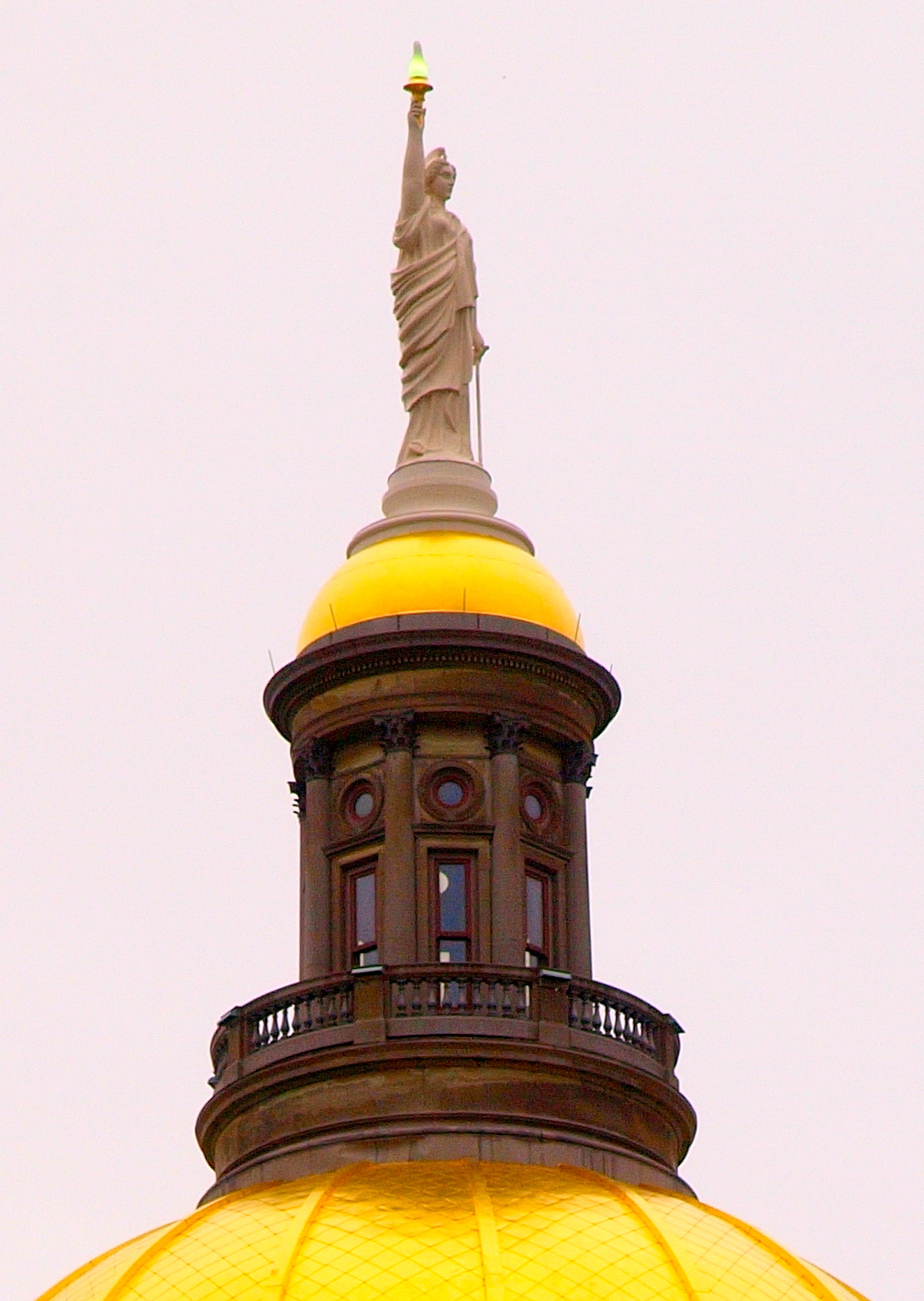 Photograph of the statue atop the Georgia Capitol.